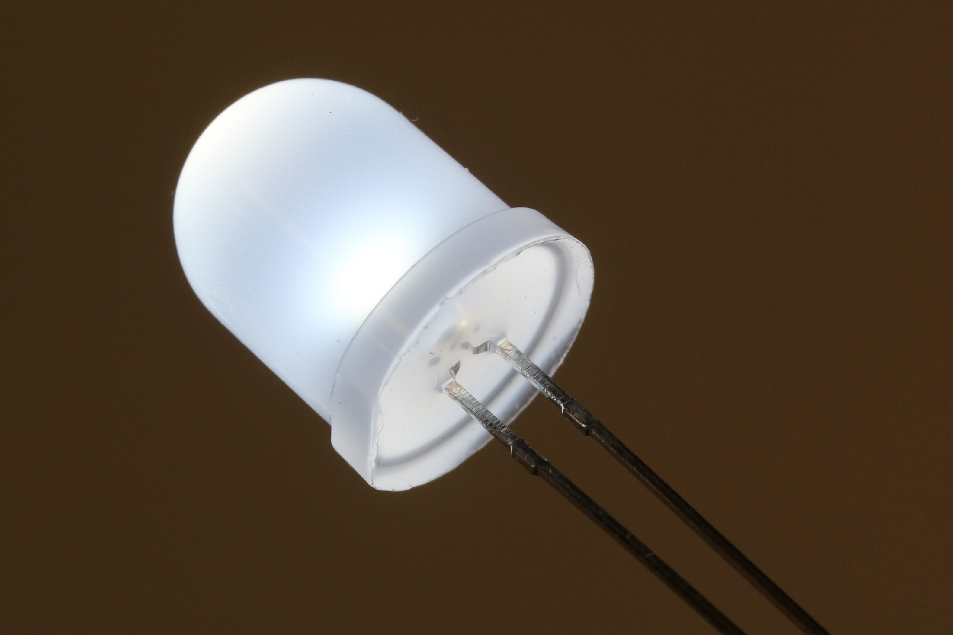 10 mm Frosted White LED (on).